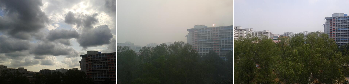 Comparison of the 2013 Southeast Asian haze before, middle, and after